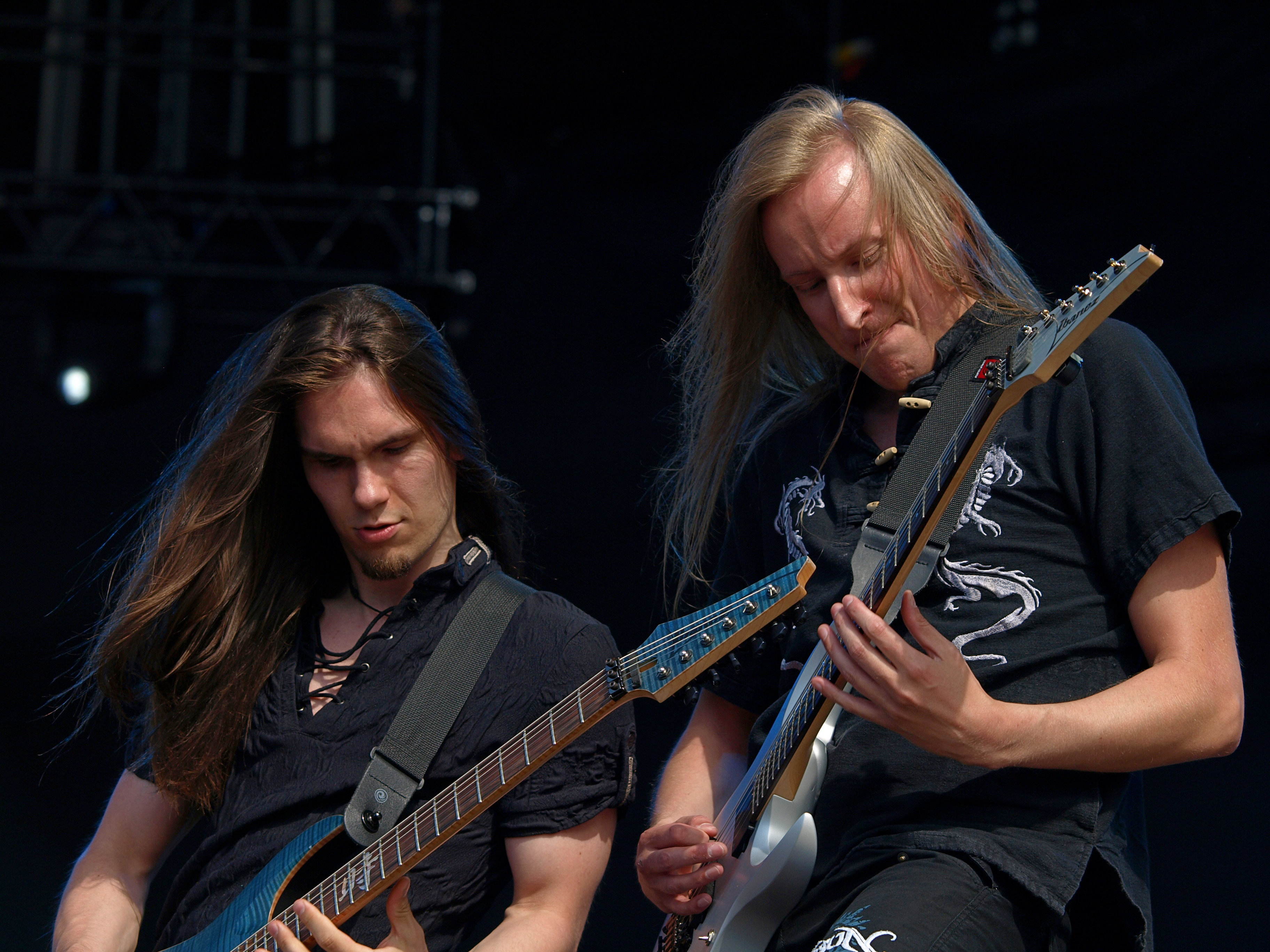 Finnish metal band Wintersun live at Tuska Open Air 2013